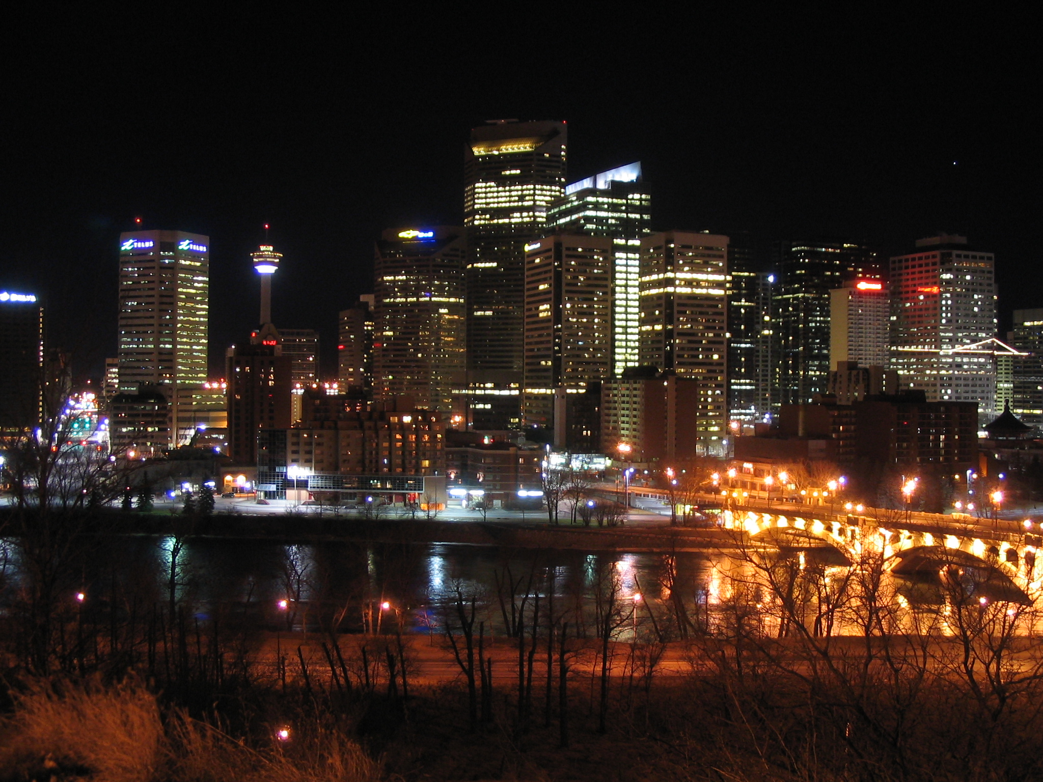 Downtown Calgary at night seen from Crescent Heights